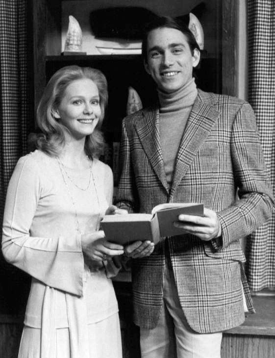 Photo of John Getz and Jeanne Lange from the daytime drama Another World.